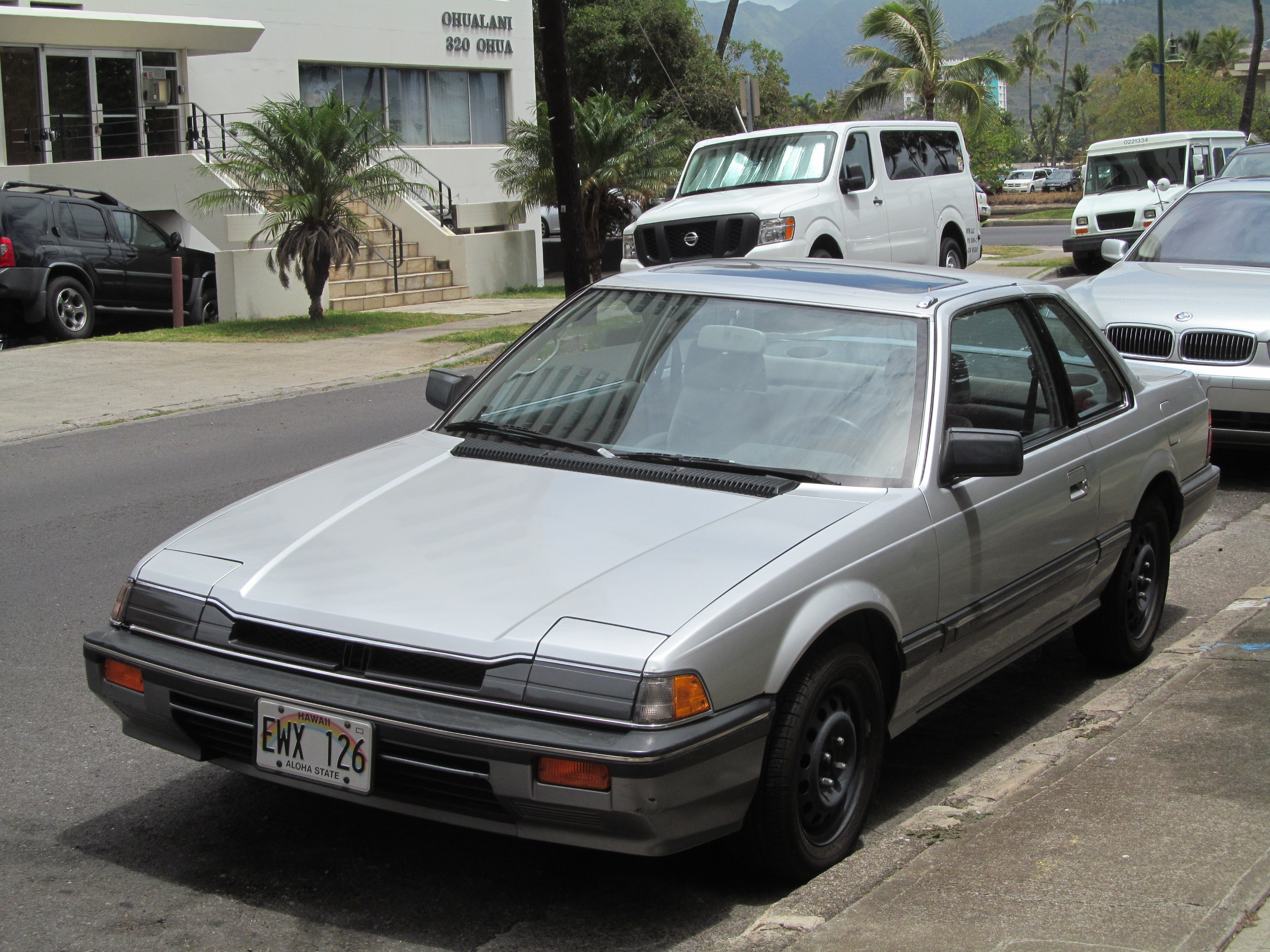 An unbelievably tidy Prelude, just missing some original wheel covers. This even had a steering lock, something I can't recall seeing on any other cars in Hawaii. I'm picking this will be around 1984-1985?